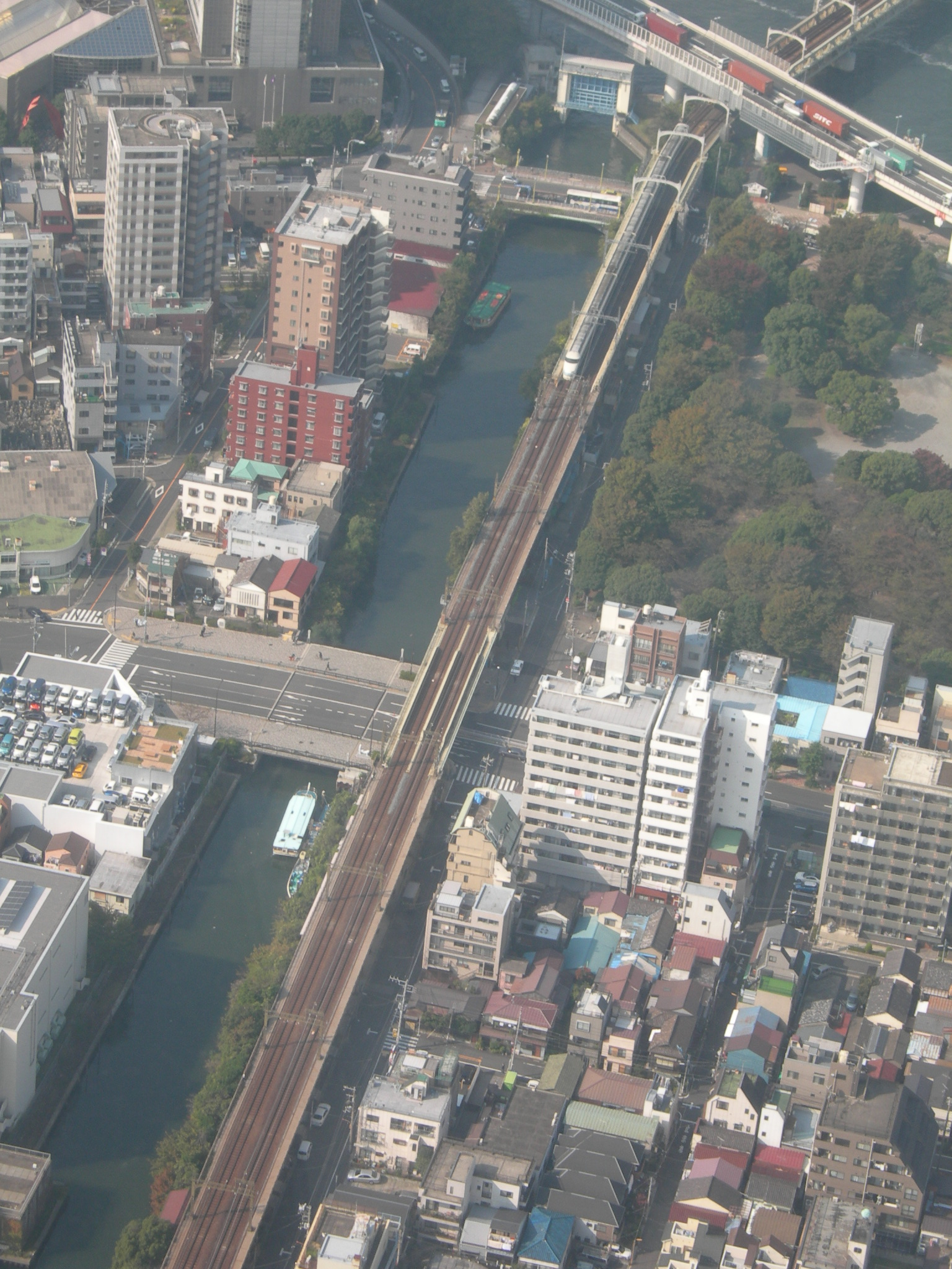 Sumida Koen Station (Abandoned railway station) from Tobu Skytree Line, Views from Tokyo Skytree "Tembo Deck 350".